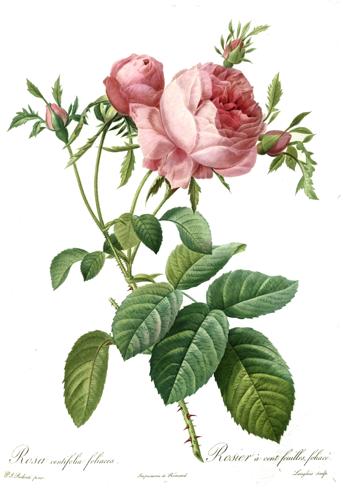 Rosa centifolia foliacea, a painted engraving of a rose by Pierre-Joseph Redouté (1759–1840).